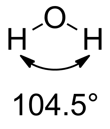 Structure of water illustrating the bond angle.